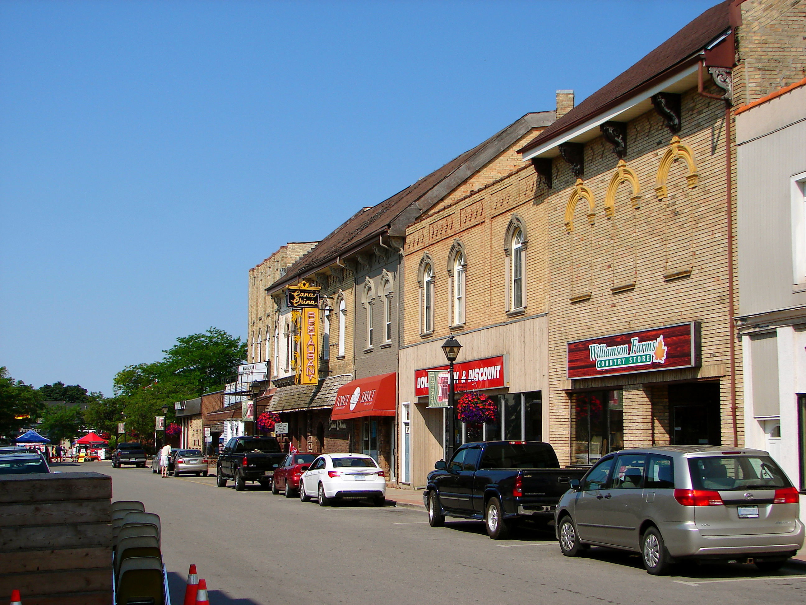 Forest (City of Lambton Shores), Ontario, Canada